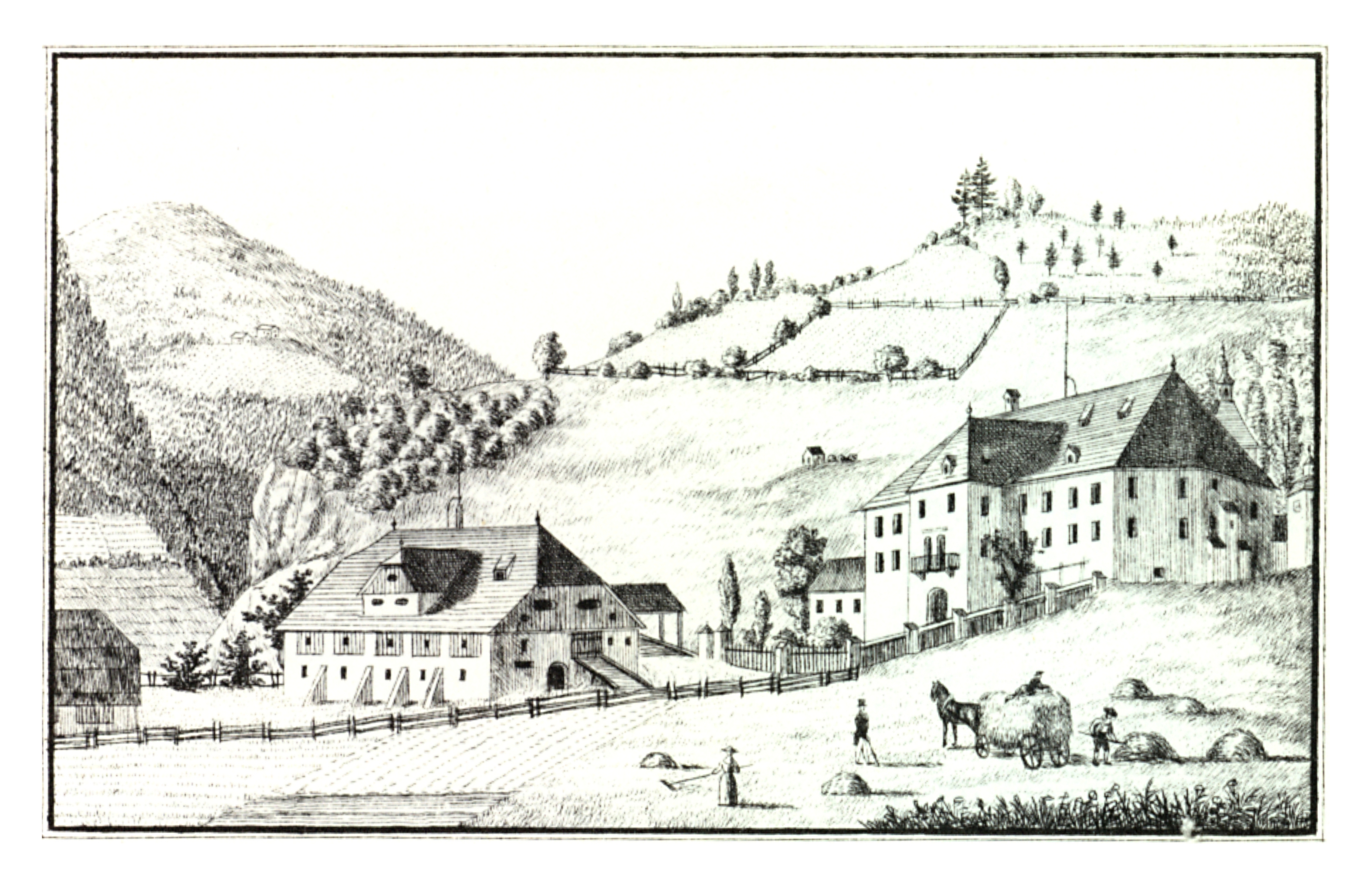 J. F. Kaiser - lithographirte Ansichten der Steyermärkischen Städte, Märkte und Schlösser Graz, 1825 Joseph Franz Kaiser (1786–1859) Alternative names J. F. KaiserDescriptionAustrian printer and editorDate of birth/death 11 March 1786 19 September 1859Location of birth/death Graz (Styria) GrazAuthority control : Q1499963 VIAF: 30629353 ISNI: 0000 0000 3083 0153 LCCN: n87141671 GND: 129880159 NLP: A24960305 WorldCat creator QS:P170,Q1499963 Scanprojekt Community Projektbudget 2012 This scan or this PDF-file was created within the GLAM-project Bookscanning, supported by Wikimedia Germany and Wikimedia Austria as a part of the community-project to capture books, documents and pictures which are not eligible to copyright or for which the copyright has expired. This document describes or depicts an object which is located in Austria today. Send requests for uncompressed scans to Hubertl. This work is in the public domain in its country of origin and other countries and areas where the copyright term is the author's life plus 100 years or less. You must also include a United States public domain tag to indicate why this work is in the public domain in the United States. This file has been identified as being free of known restrictions under copyright law, including all related and neighboring rights.